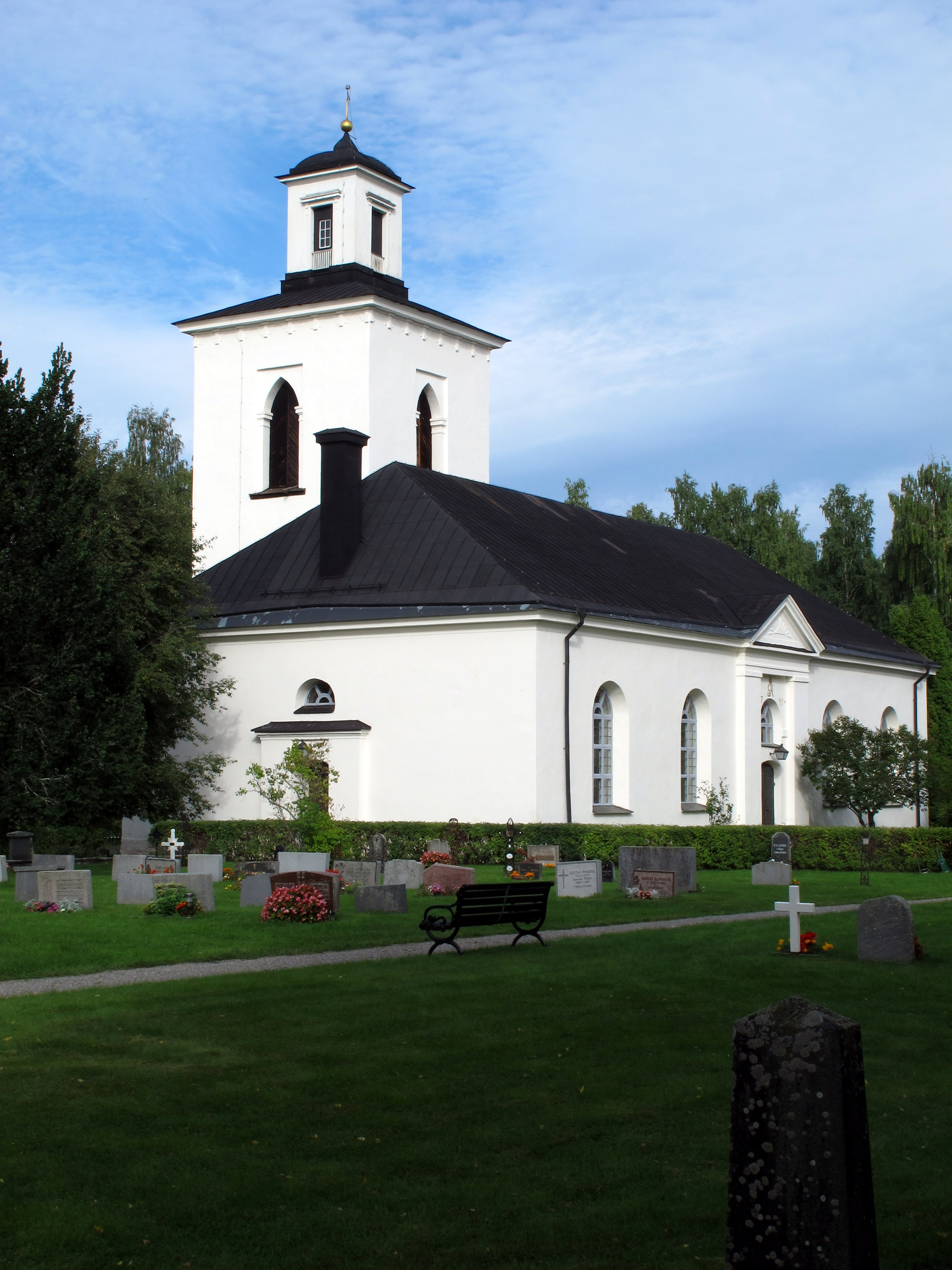 Church in Norrbo in Hälsingland in Sweden.